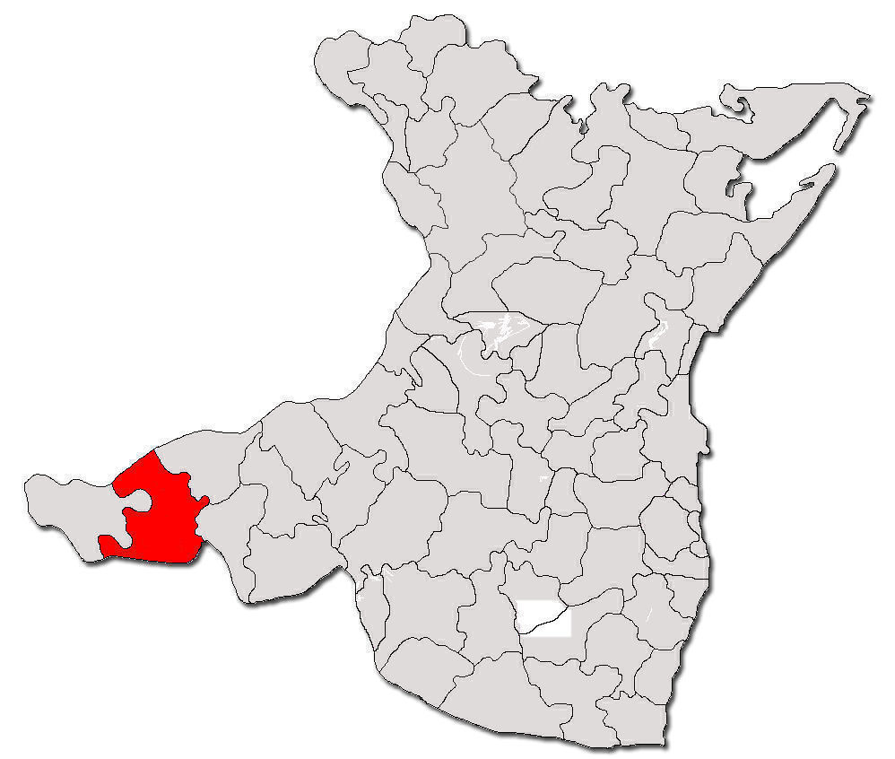 Contour map of Lipnita commune